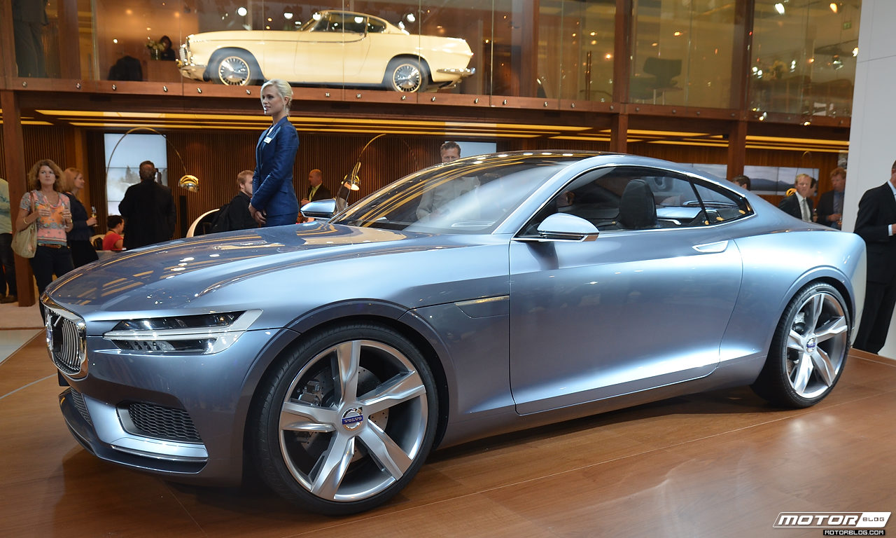 IAA Frankfurt 2013: Volvo Concept Coupe / Photo: Raphael Jahn ______________________ Please feel free to use this image for FREE under the Creative Commons (CC) licence. However, if you use the image, pls set a backlink to and give credit as following: "Image: ". For highres images or any other inquiries pls contact mailto: . Thanks.